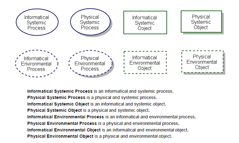 OPM_Things_Example